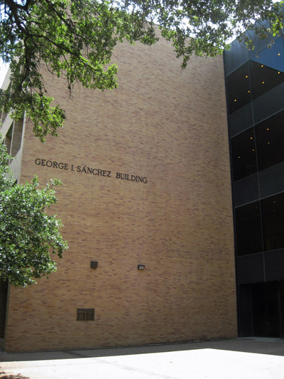 The College of Education is housed in the George I. Sanchez Building on the University of Texas campus in Austin, Texas